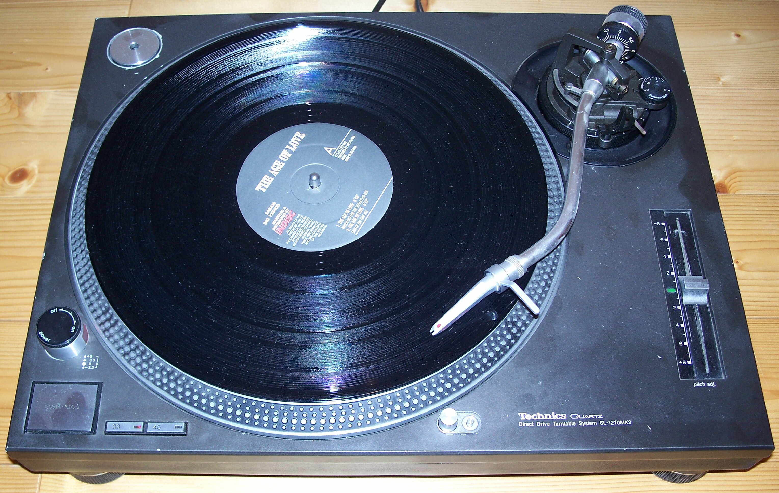 Technics SL-1210MK2